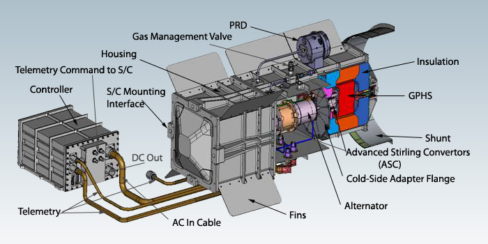 Labeled cutaway view of an Advanced Stirling Radioisotope Generator.